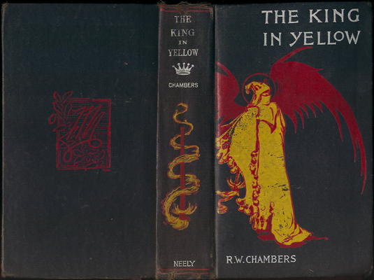 Cover (front and back) of the first, 1895 edition of The King in Yellow by Robert W. Chambers.